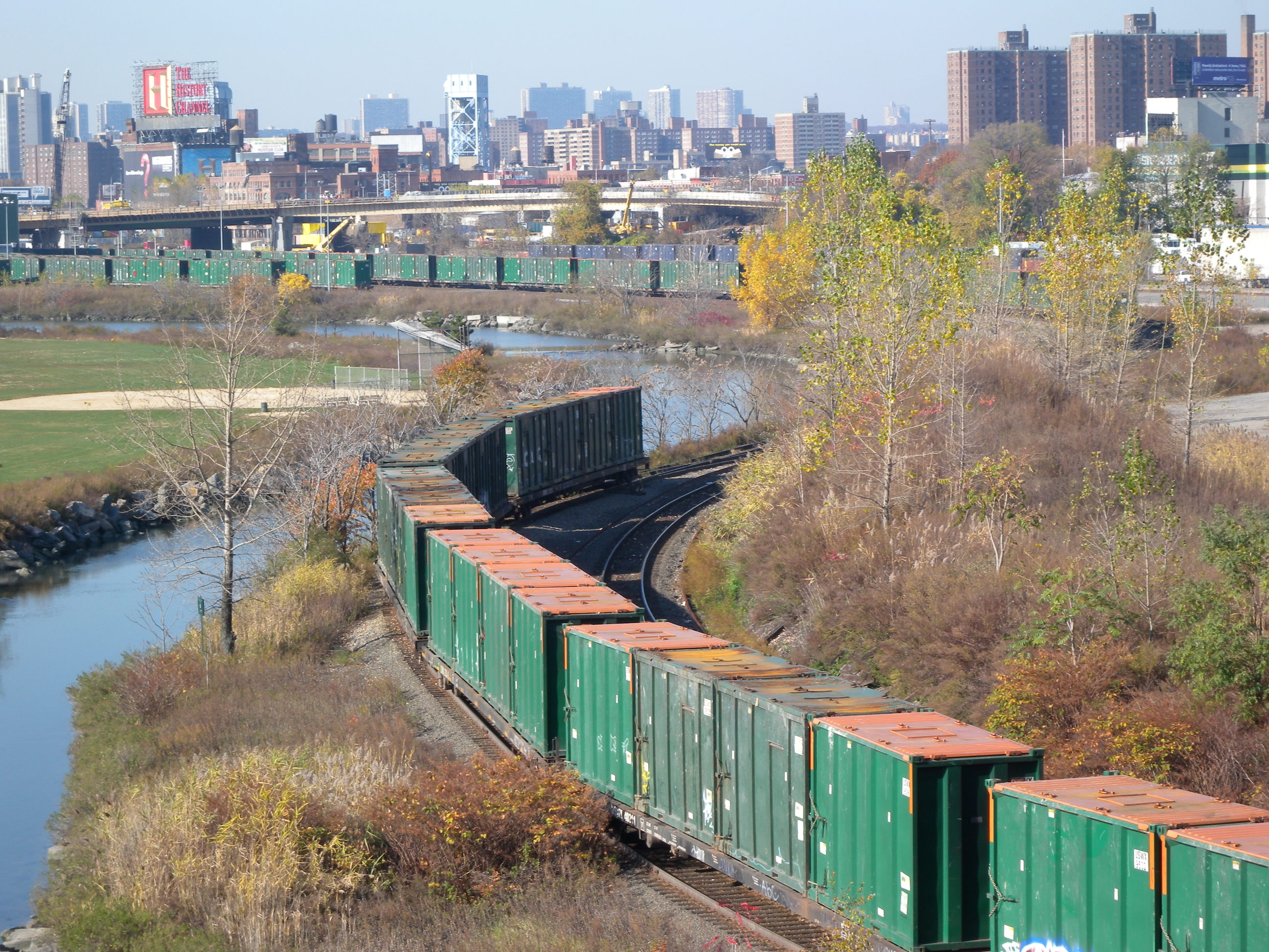 Looking north along Oak Point Link and Bronx Kill from Triboro on a sunny November midday. Harlem River Intermodal Railyard in background. EXIF says September due to photographer's error. ZIP 10054.